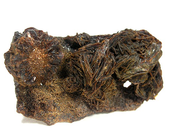 Jarosite Locality: Sierra Peña Blanca, Peña Blanca District, Municipio de Aldama, Chihuahua, Mexico (Locality at ) This specimen has unusually large, well-formed, sharp crystals to over 1 cm, and is part of the piece illustrated in Barlow's book on page 349 (I trimmed that specimen when i bought it in 1998 and just got this half back in a collection purchase, funny enough). It has a long history dating to a one-time find on the mine dumps in the 1980s. These are regarded as among the best of species. 5.6 x 3.1 x 1.6 cm